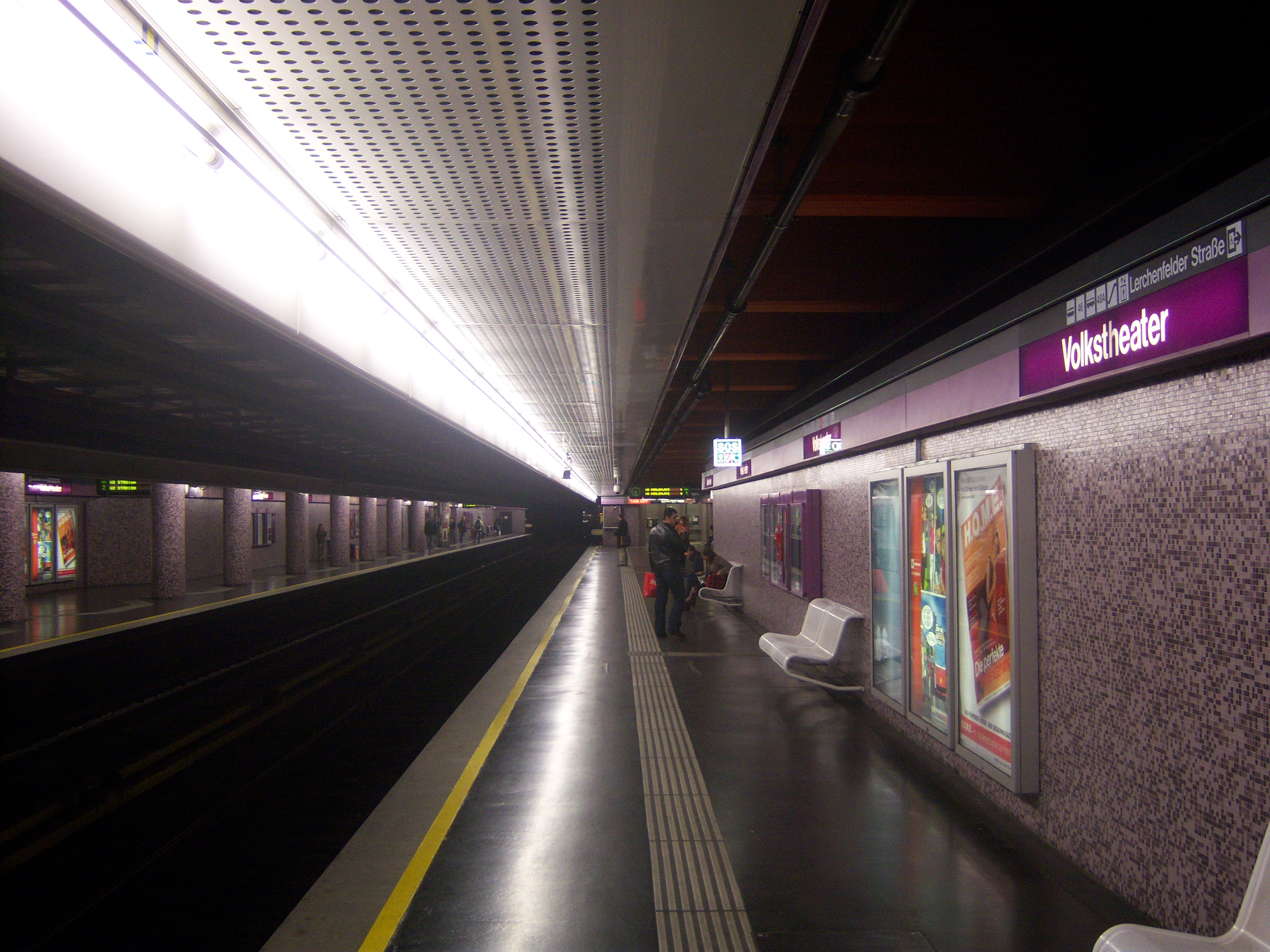 U2-Station Volkstheater